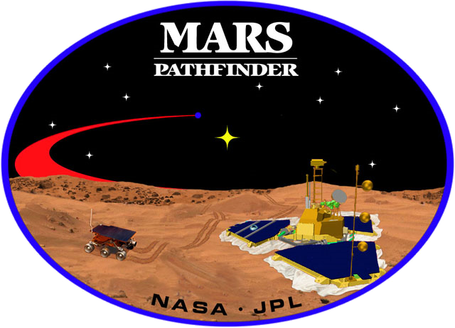 Official insignia of the Mars Pathfinder mission, which successfully landed a lander and rover on Mars in July 1997.